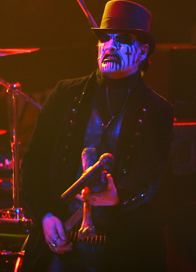 King Diamond's concert at Moscow, Russia